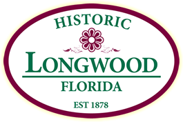 Logo of Longwood, Florida